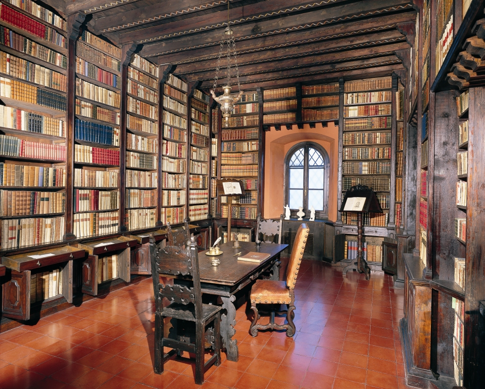 The brescian room in the library, House of the Podestà (Lonato del Garda, BS)